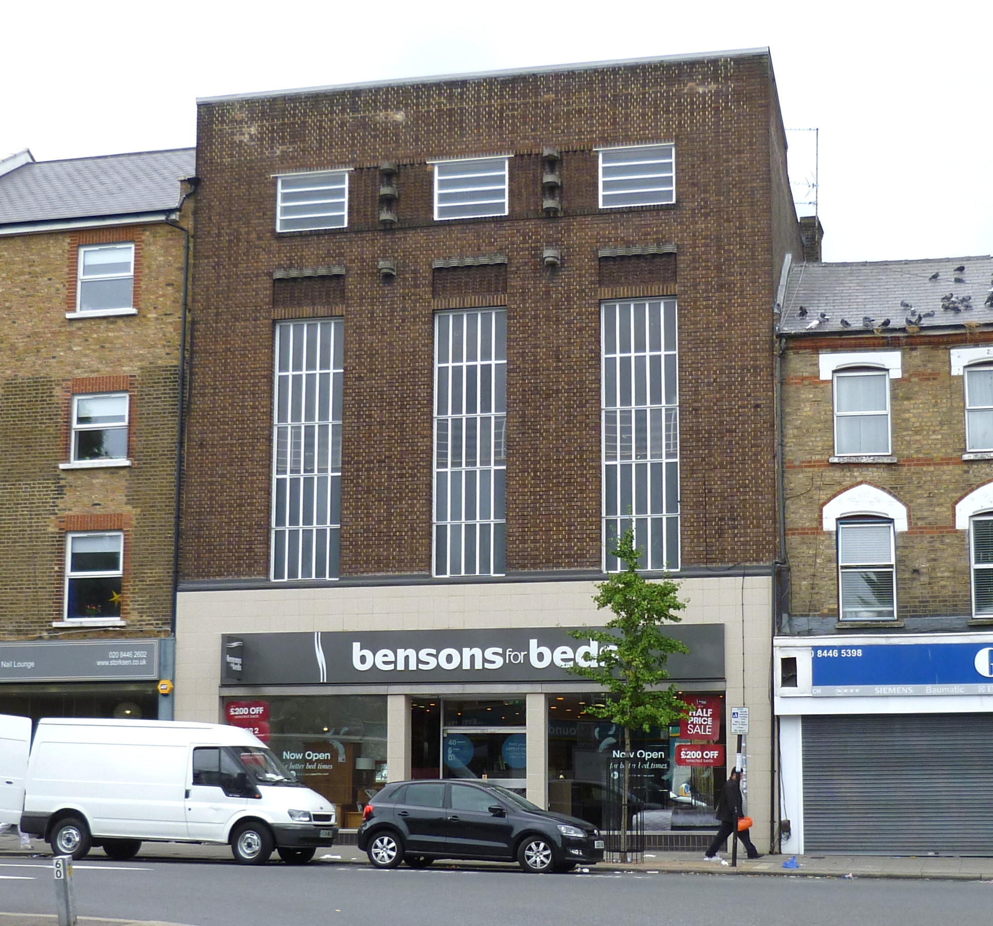 London